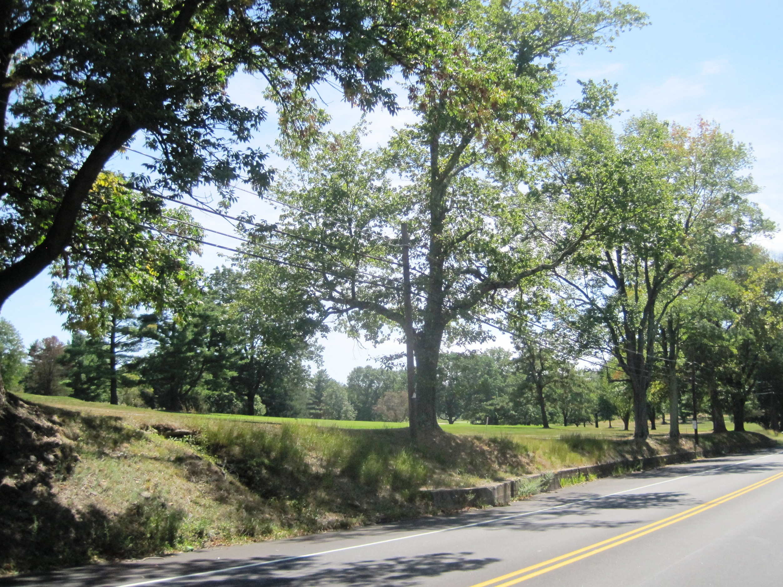 Photo of the Hopewell Valley Golf Club within the unincorporated community of Glenmoore, New Jersey. The photo was taken in Hopewell Township, Mercer County along Pennington-Hopewell Road (County Route 654) south of Moores Mill-Mount Rose Road.